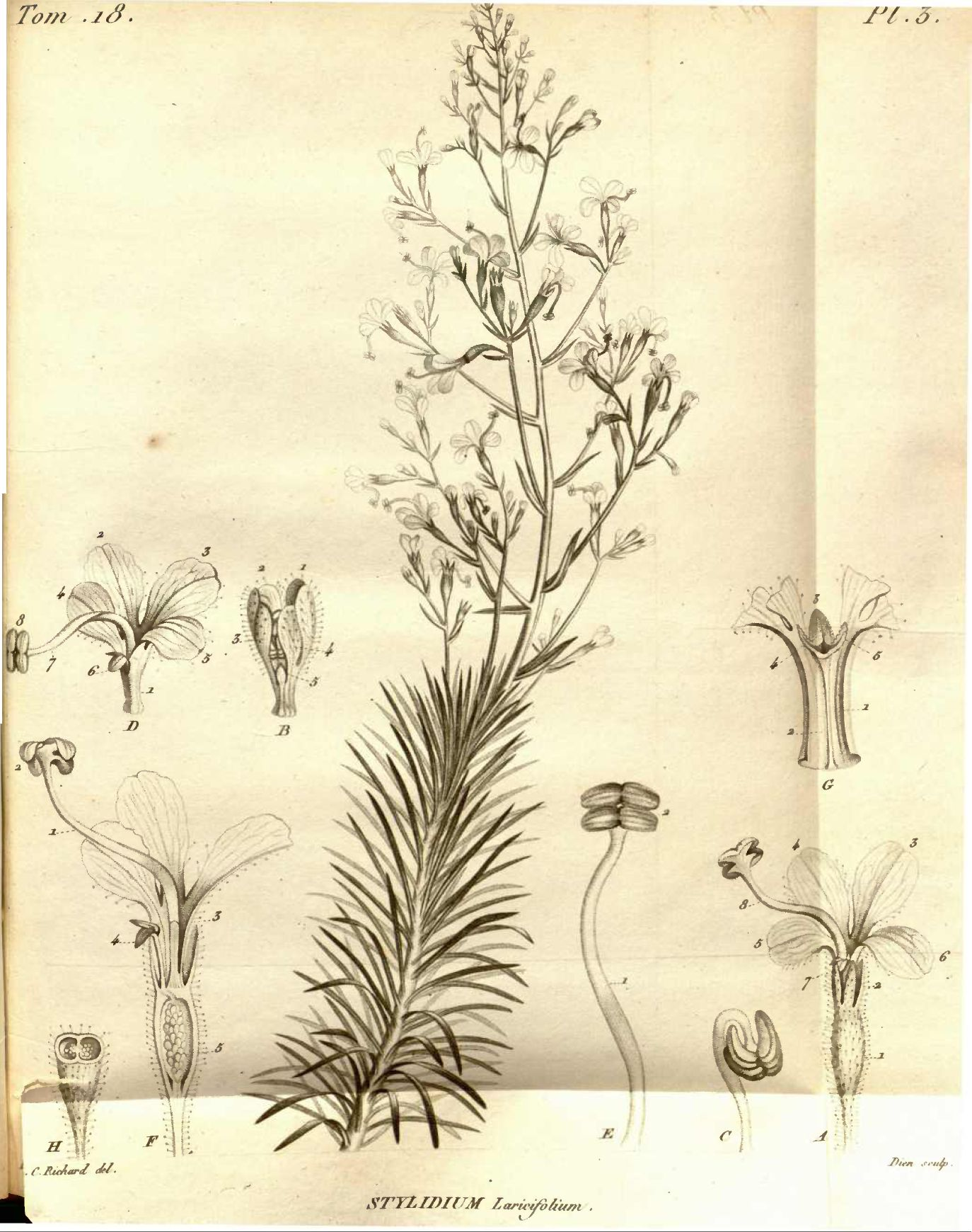 Annales du Muséum National d'Histoire Naturelle - Publication: Paris : Frères Levrault, 1802-1813. Stylidium laricifolium